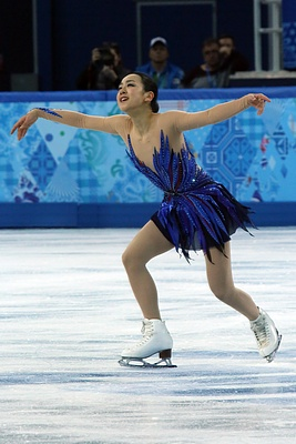 Mao Asada during her free program "Piano Concerto No. 2 " at the 2014 Winter Olympics.